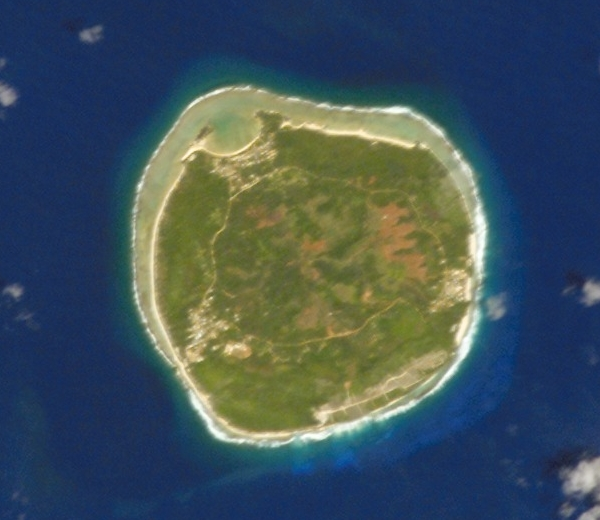 NASA astronaut image of Rimatara, Austral Islands, French Polynesia